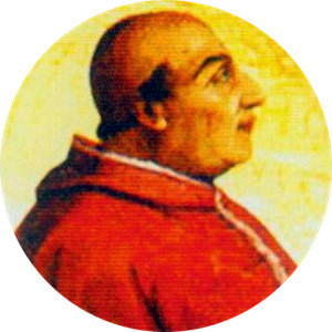 Portait of Pope Alexander VI in the Basilica of Saint Paul Outside the Walls, Rome